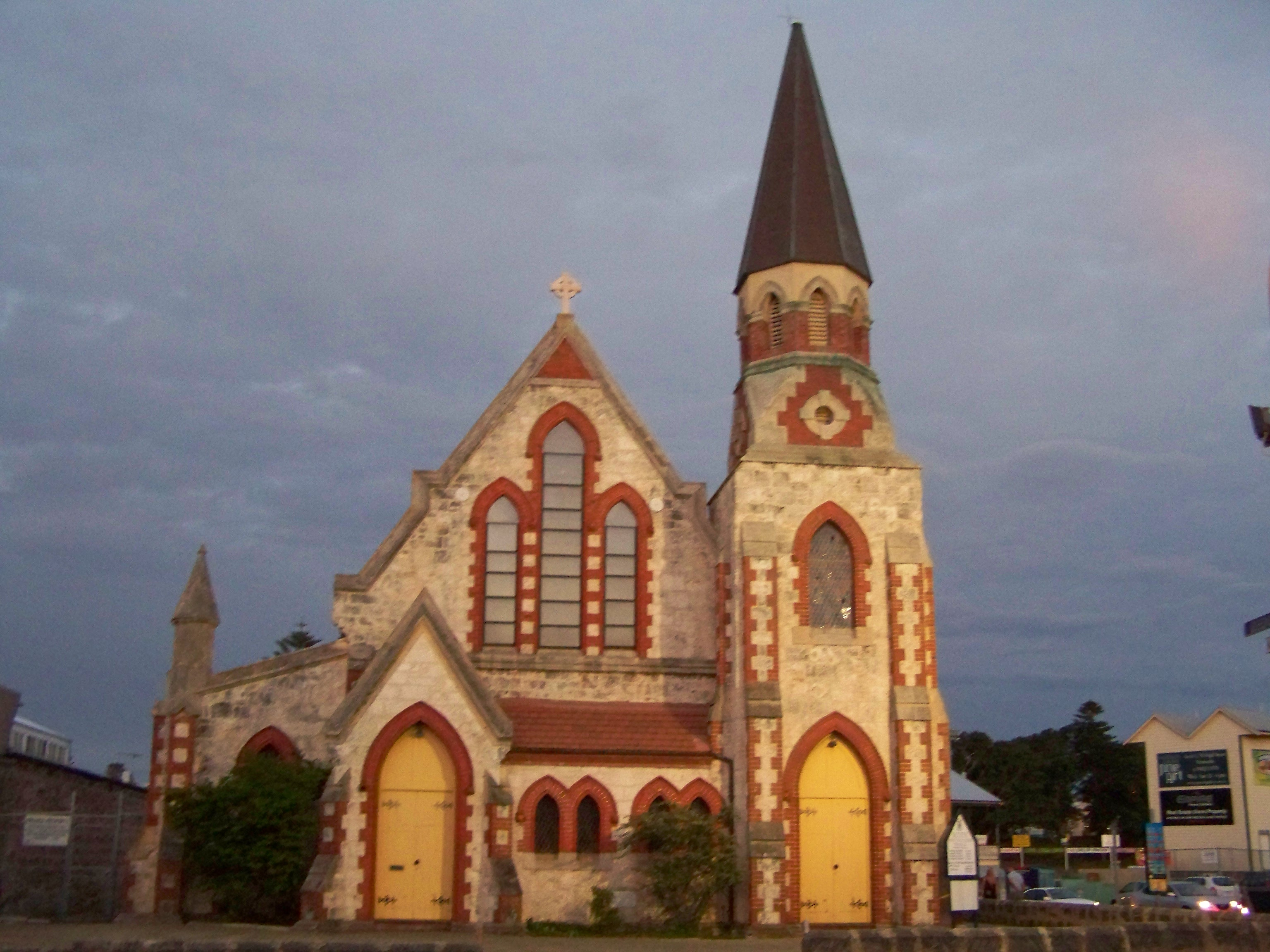 Scot's Church